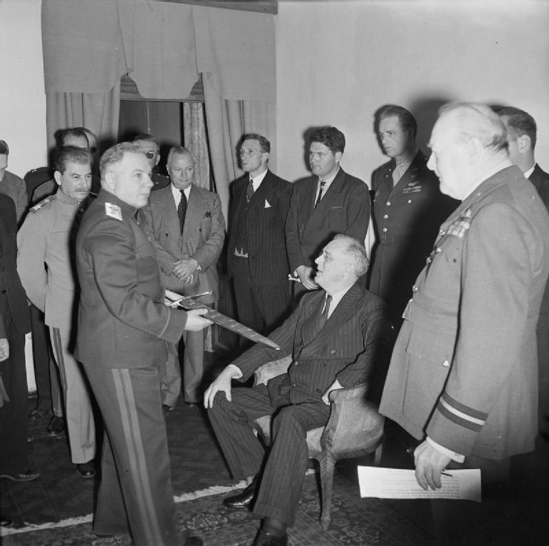 The Teheran Conference, Iran, 28 November To 1 December 1943 Marshal Kliment Voroshilov shows the Stalingrad sword to US President Franklin D Roosevelt in the conference room at the Soviet Legation in Teheran, Iran, on 28 November 1943 while the Prime Minister Winston Churchill and Marshal Joseph Stalin look on.